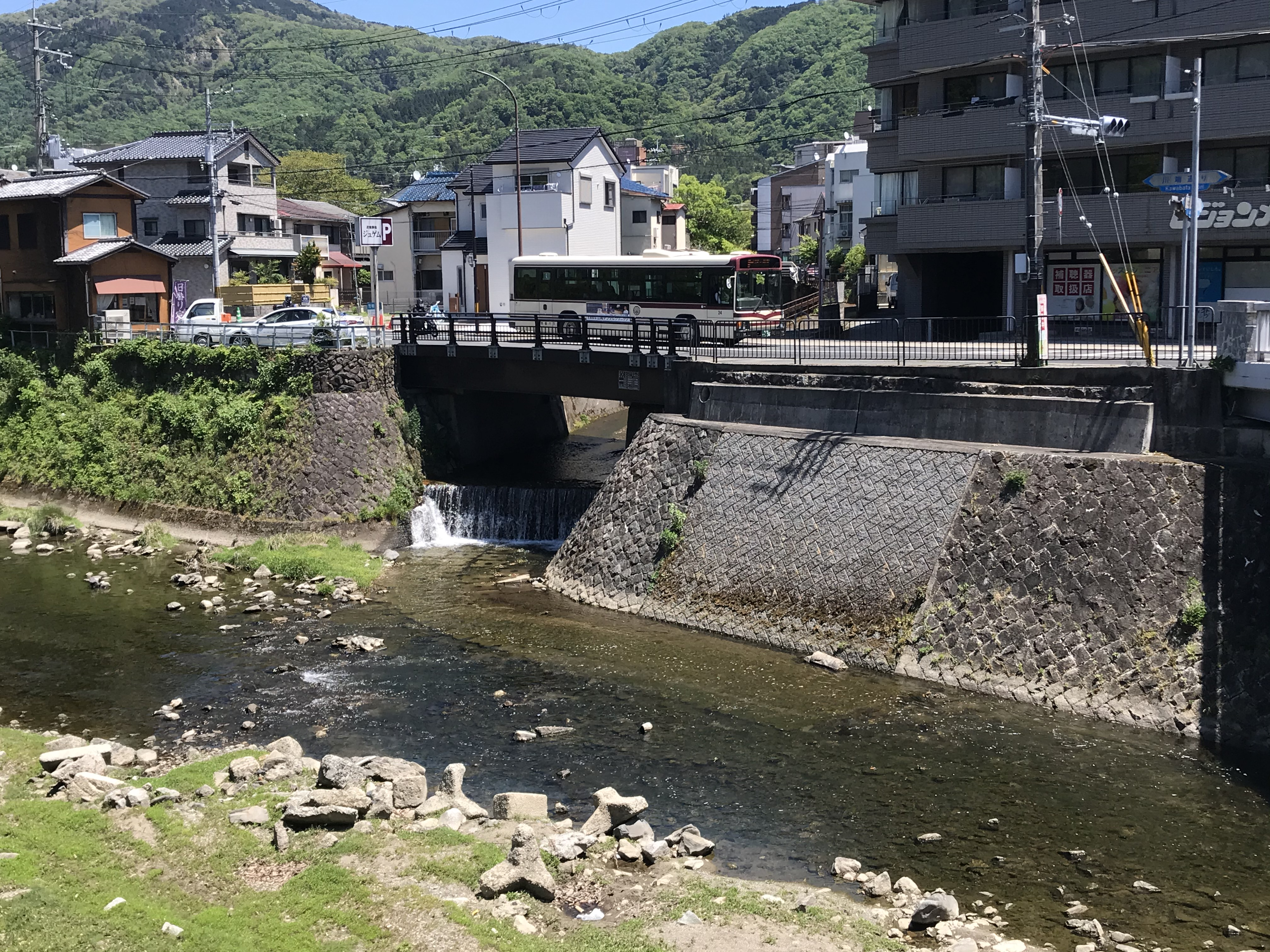 Otowa river in Yamabana, Sakyo-ku, Kyoto confluents into Takano river. Road over the river is route 367.